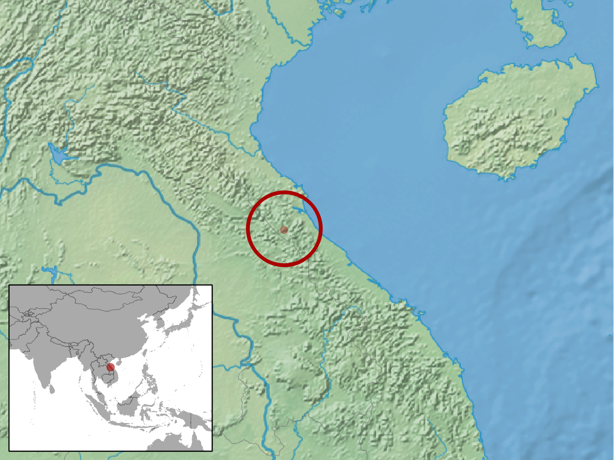 geographic distribution of Myotis annamiticus